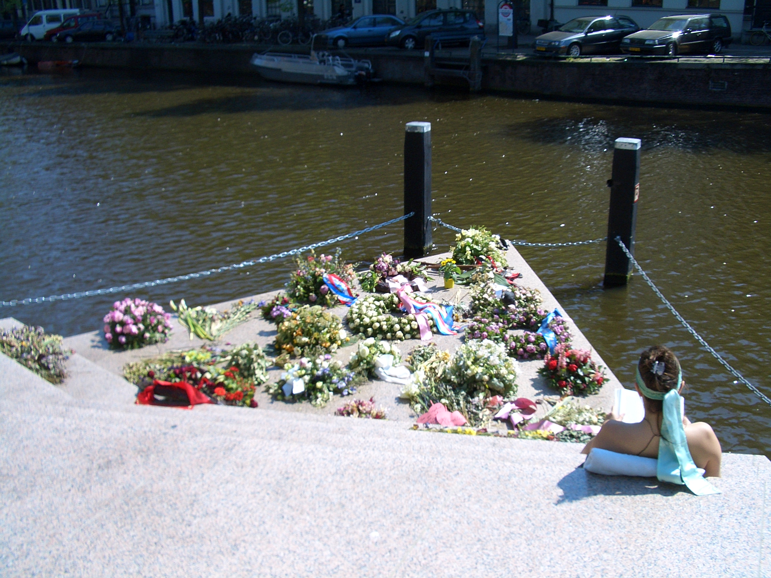 Homomonument, Amsterdam.